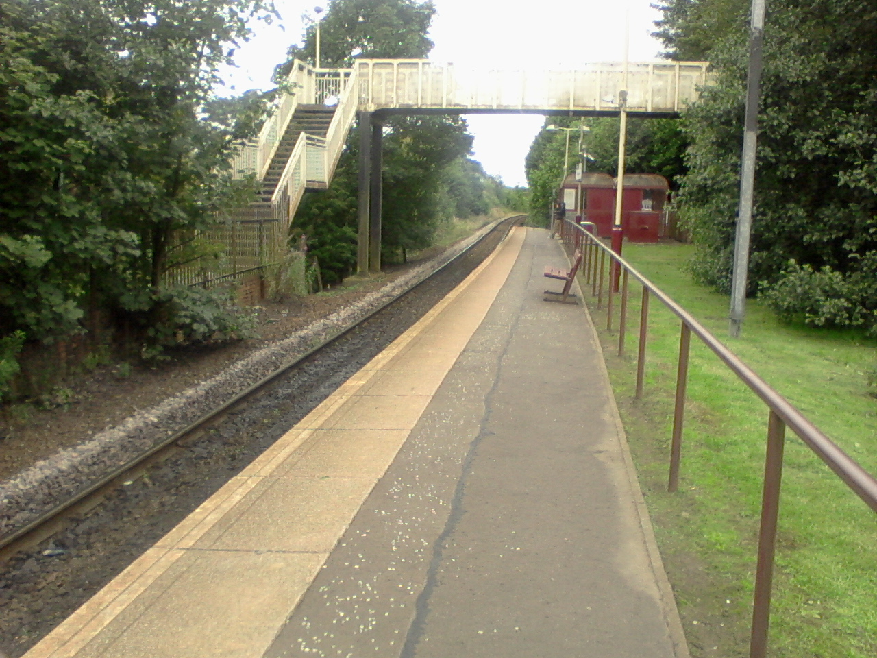 Mosspark railway station, looking WNW